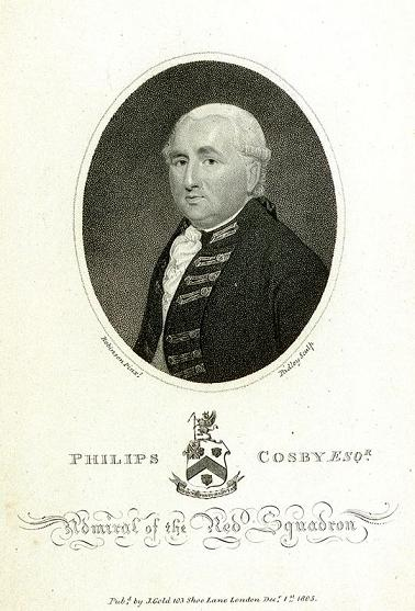 Portrait of Admiral Phillips Cosby